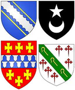 Arms of Richard Fortescue (d.1570) as shown on escutcheon on his monumental brass in Filleigh Church, Devon